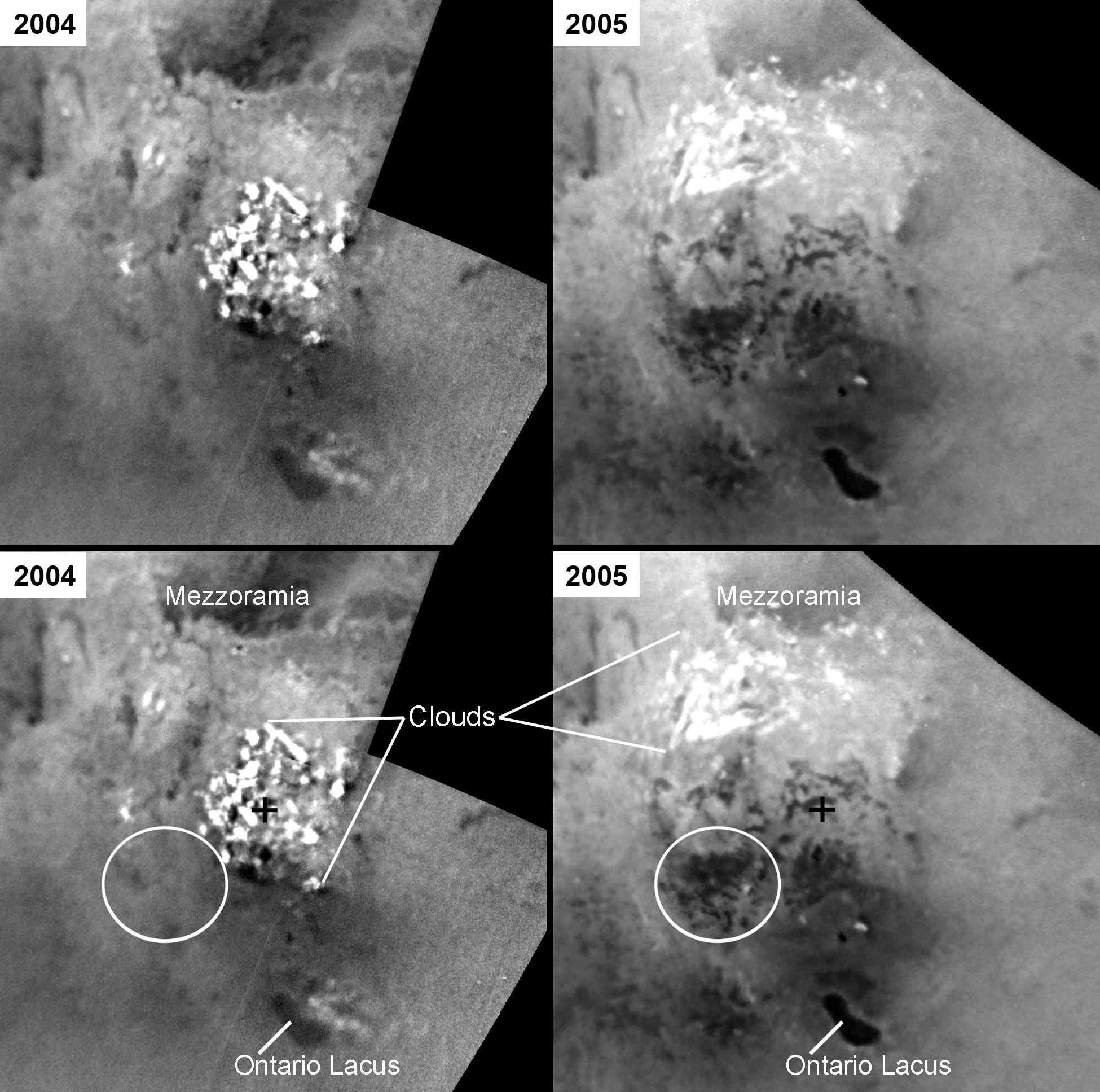 These mosaics of the south pole of Saturn's moon Titan, made from images taken almost one year apart, show changes in dark areas that may be lakes filled by seasonal rains of liquid hydrocarbons. The images on the left (unlabeled at top and labeled at bottom) were acquired July 3, 2004. Those on the right were taken June 6, 2005. In the 2005 images, new dark areas are visible and have been circled in the labeled version. The very bright features are clouds in the lower atmosphere (the troposphere). Titan's clouds behave similarly to those on Earth, changing rapidly on timescales of hours and appearing in different places from day to day. During the year that elapsed between these two observations, clouds were frequently observed at Titan's south pole by observers on Earth and by Cassini's imaging science subsystem (see PIA06124). It is likely that rain from a large storm created the new dark areas that were observed in June 2005. Some features, such as Ontario Lacus, show differences in brightness between the two observations that are the result of differences in illumination between the two observations. These mosaics use images taken in infrared light at a wavelength of 938 nanometers. The images have been oriented with the south pole in the center (black cross) and the 0 degree meridian toward the top. Image resolutions are several kilometers (several miles) per pixel.